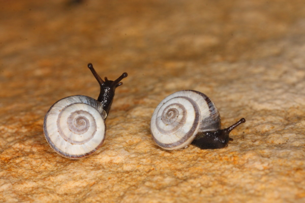 Candidula unifasciata, Magredi di Cordenons, Italy